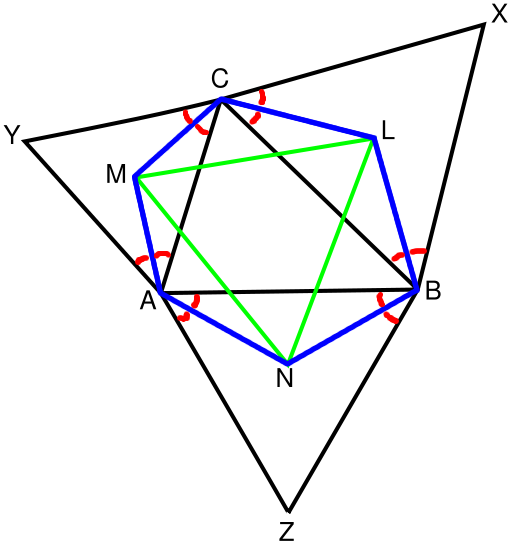 Picture for proof of Napoleon's theorem